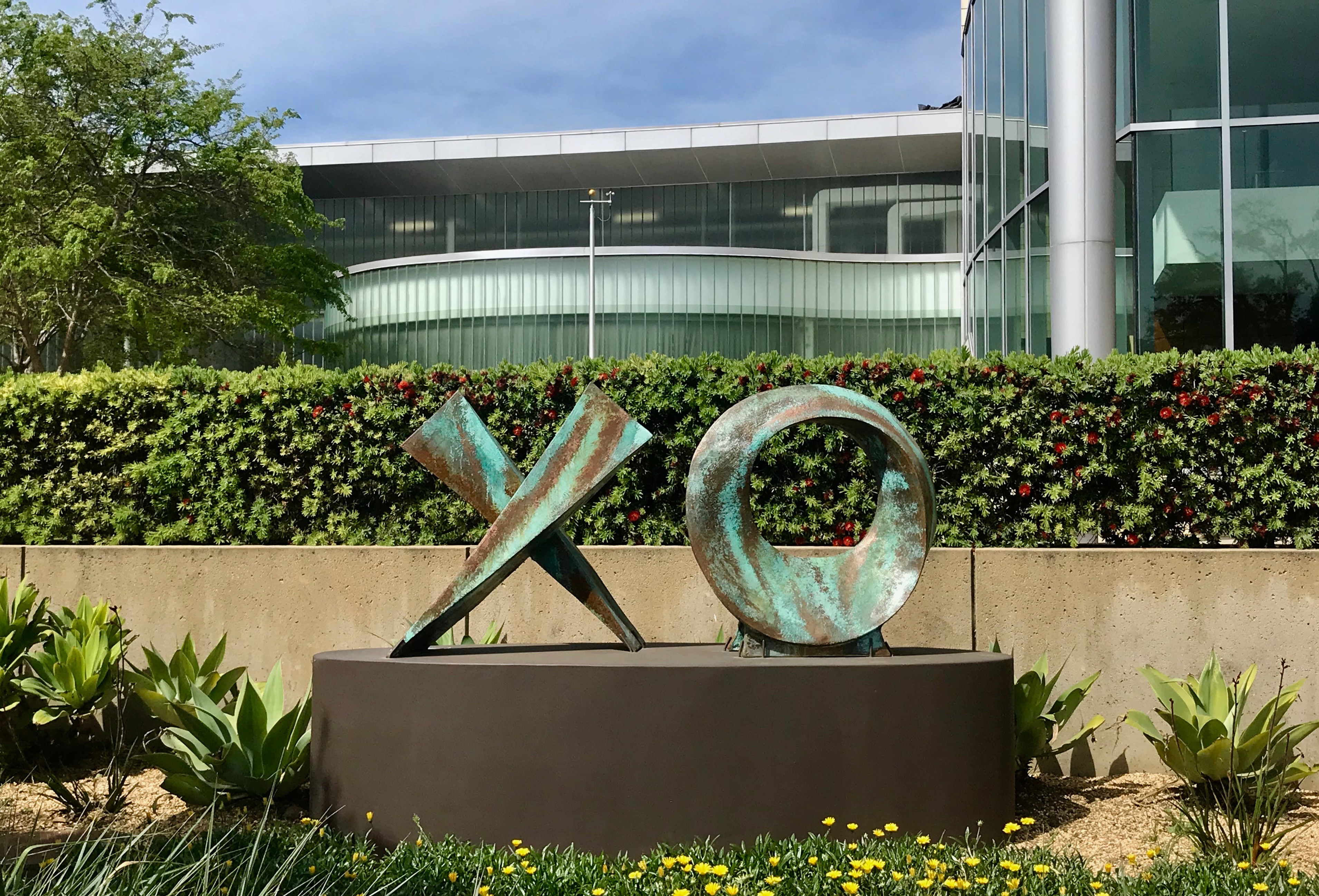 "Love Letters", 2018, ceramic with copper and iron oxide patina, 40" x 80" by Charles Sherman "Love Letters" (2018) is a monumental ceramic double tetrahedron X and infinity ring O by Los Angeles-based sculptor Charles Sherman. It is a public artwork located in front of the City of Beverly Hills Public Works Department in Beverly Hills, California 90210